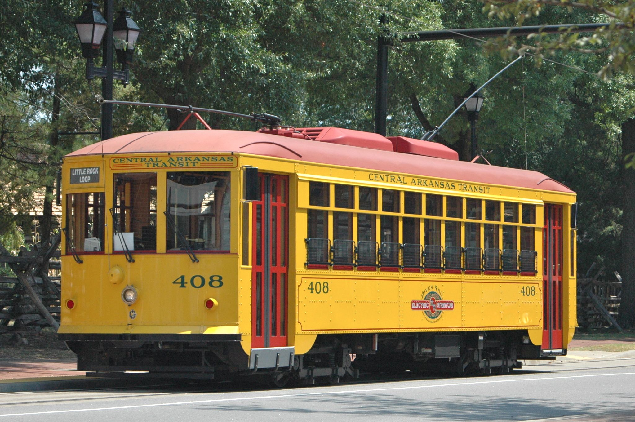 Car 408, of the River Rail Streetcar heritage-streetcar line, in downtown Little Rock. No. 408 is a replica of a double-truck Birney-type streetcar, built in 2004 by the Gomaco Trolley Company.